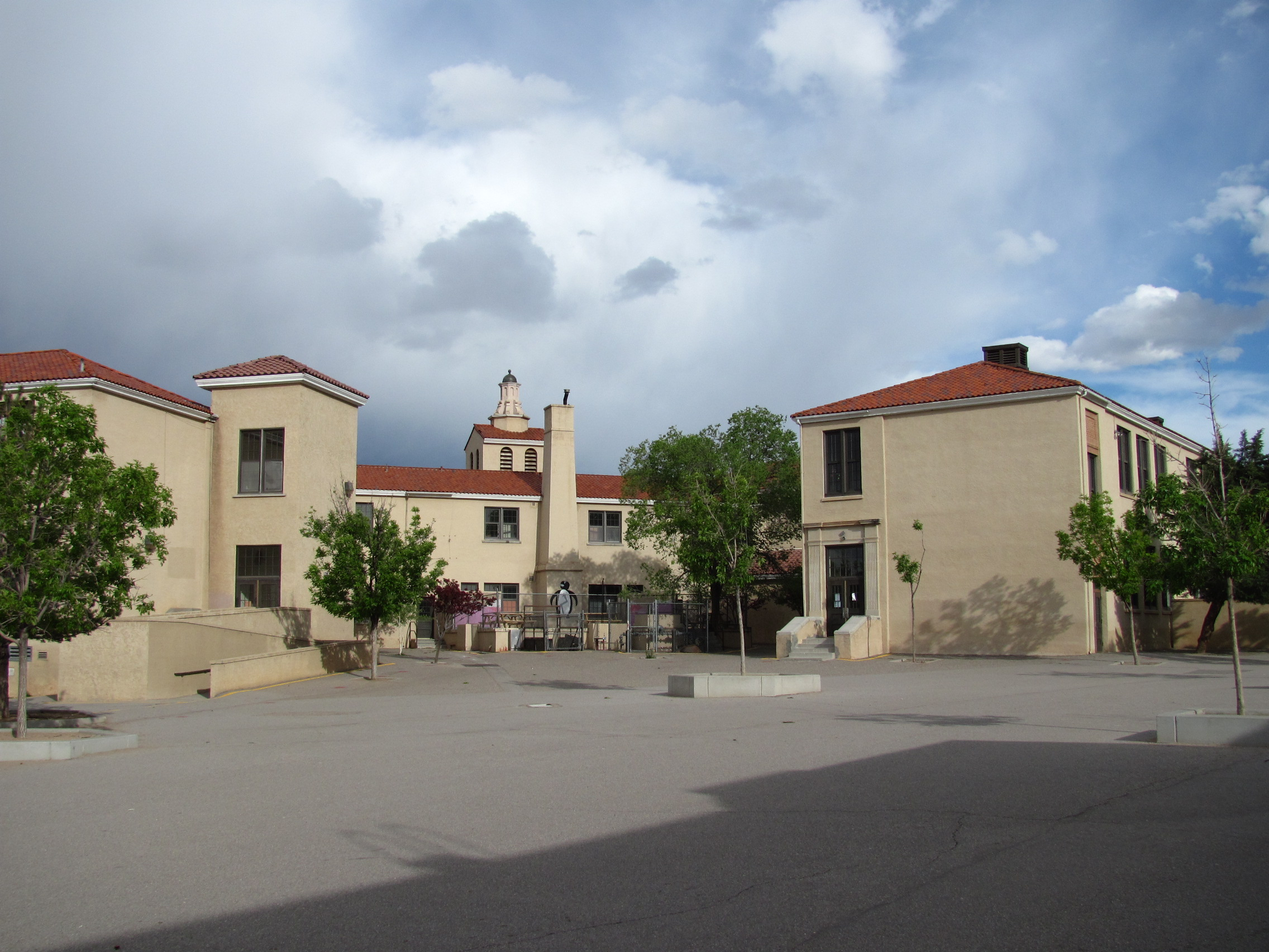 Monte Vista Elementary School, rear, Albuquerque New Mexico